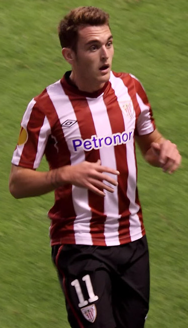 Ibai Gómez playing for Athletic in Europa League.